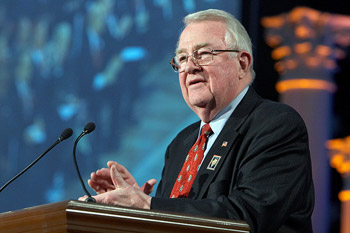 Edwin Meese III (*1931-12-02), Former U.S. Attorney General at Reagan Stamp Dedication (2005-02-10)